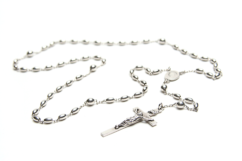 A sterling silver Catholic rosary.